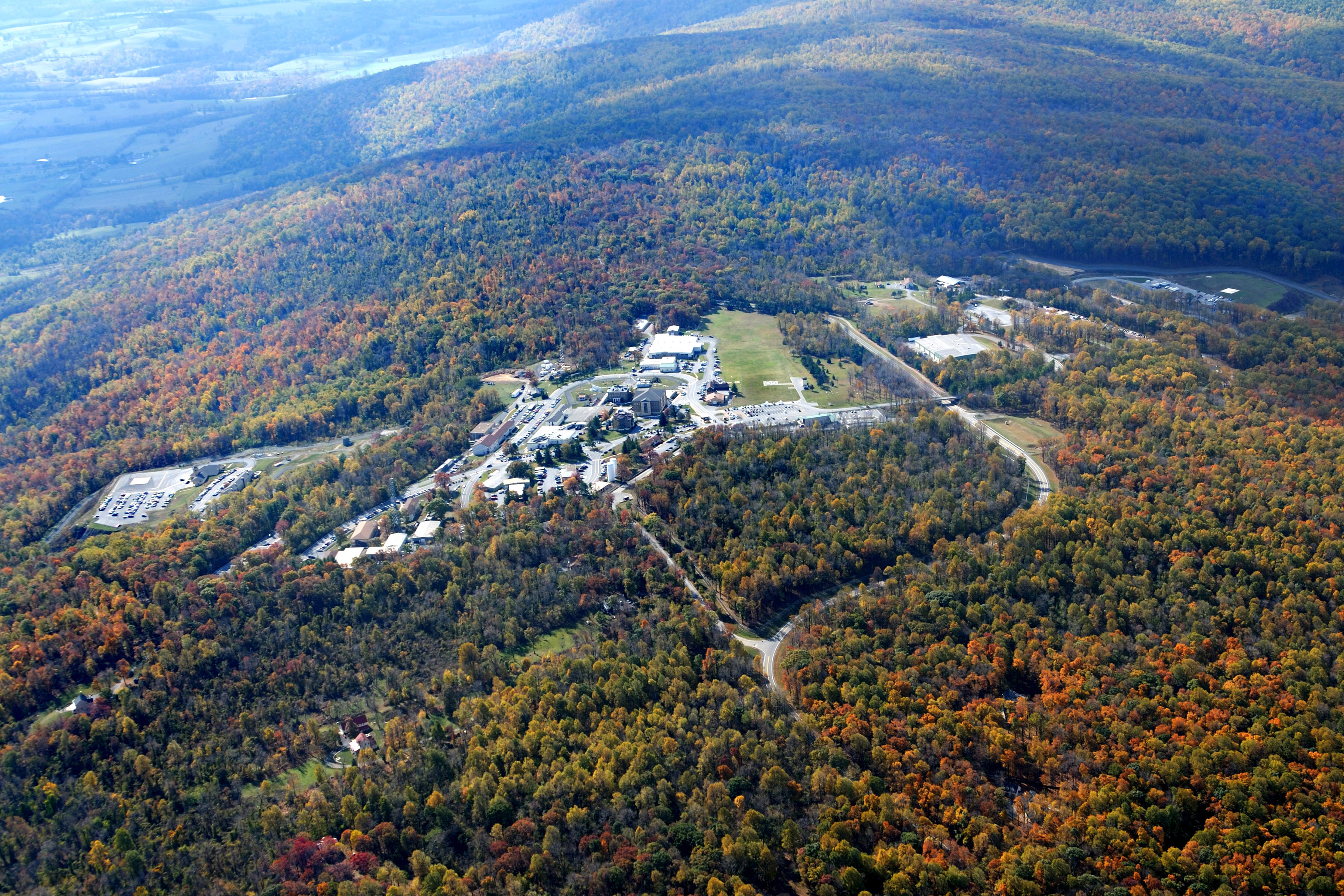 Mount Weather, VA, November 07, 2007 -- Aerial of Mount Weather Emergency Operations Center, Virginia. OFFICIAL FEMA PHOTO/Karen Nutini